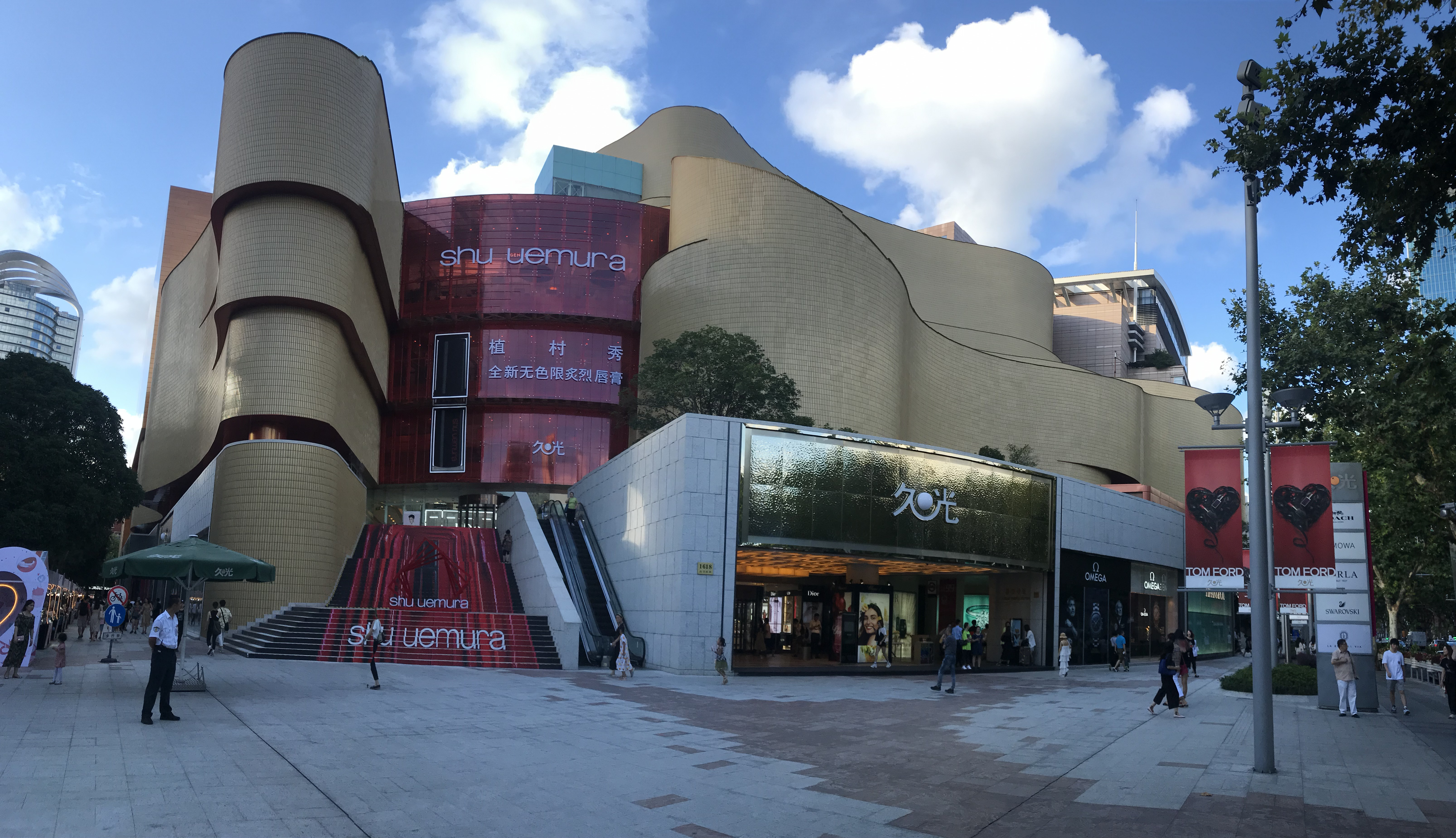 201908 Shanghai Jiuguang Department Store